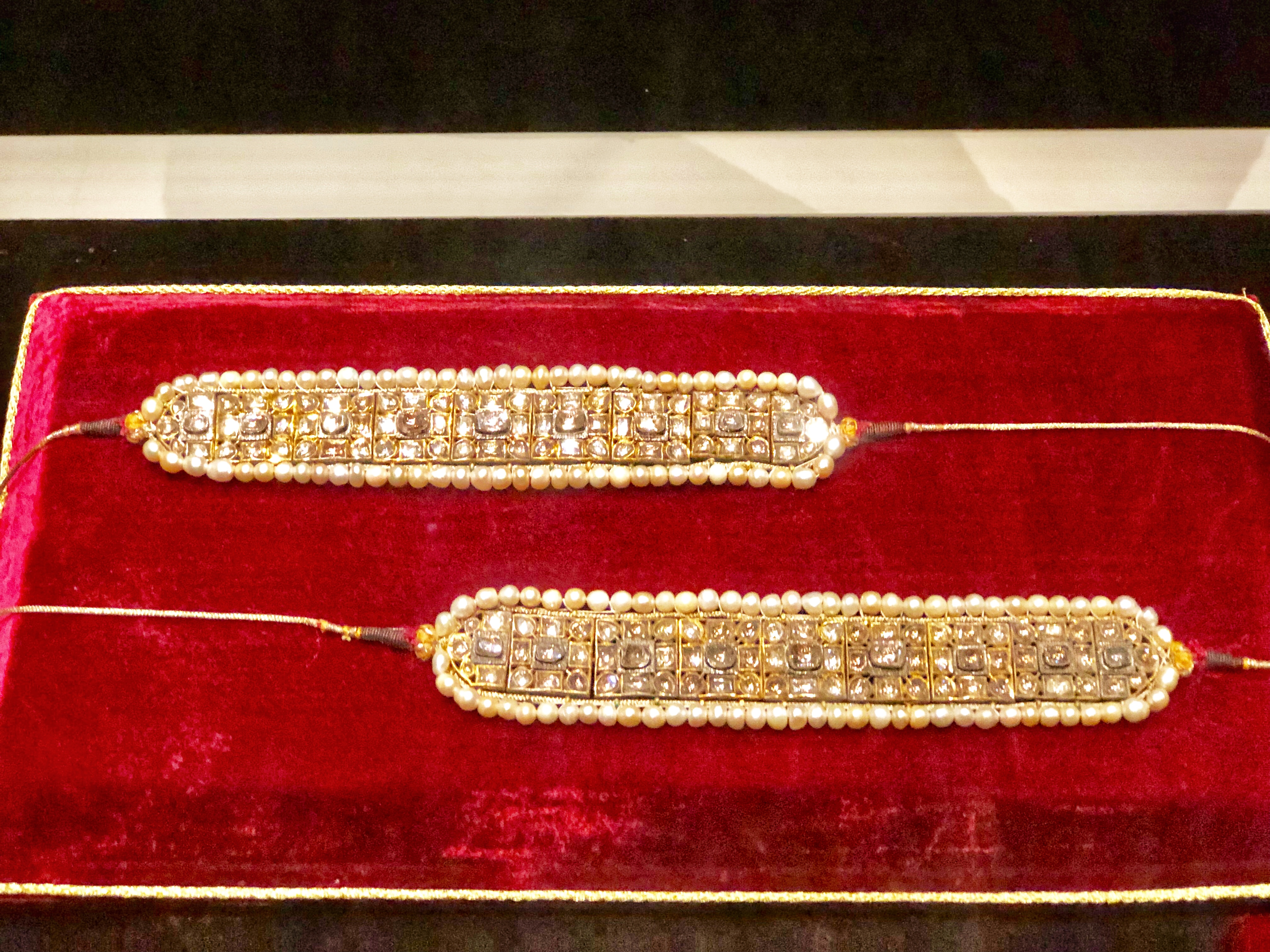 Rock cut diamonds embedded on a band of gold and surrounded by pearls